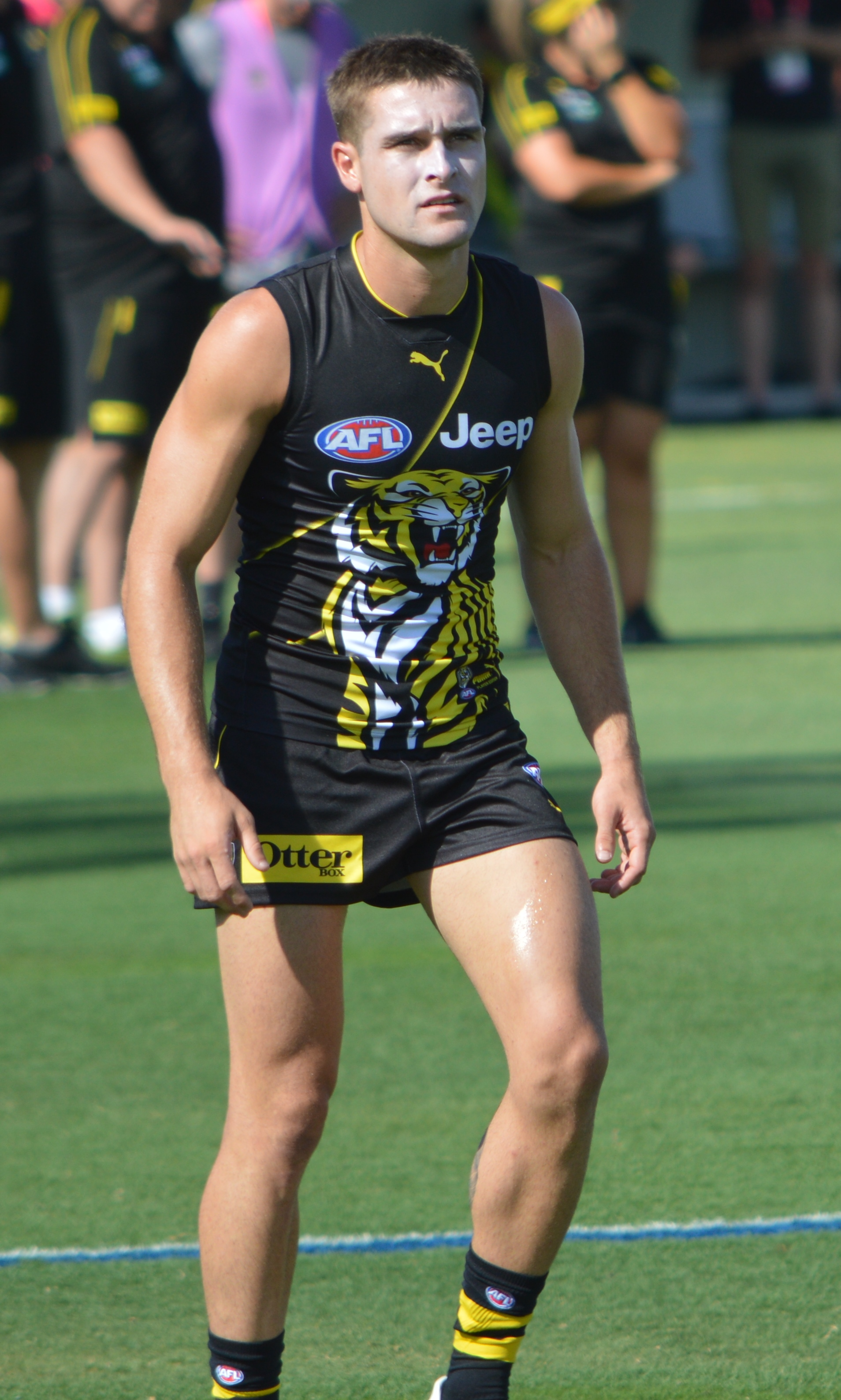 Jayden Short with Richmond during a JLT Community Series match against Melbourne in Shepparton in March 2019.